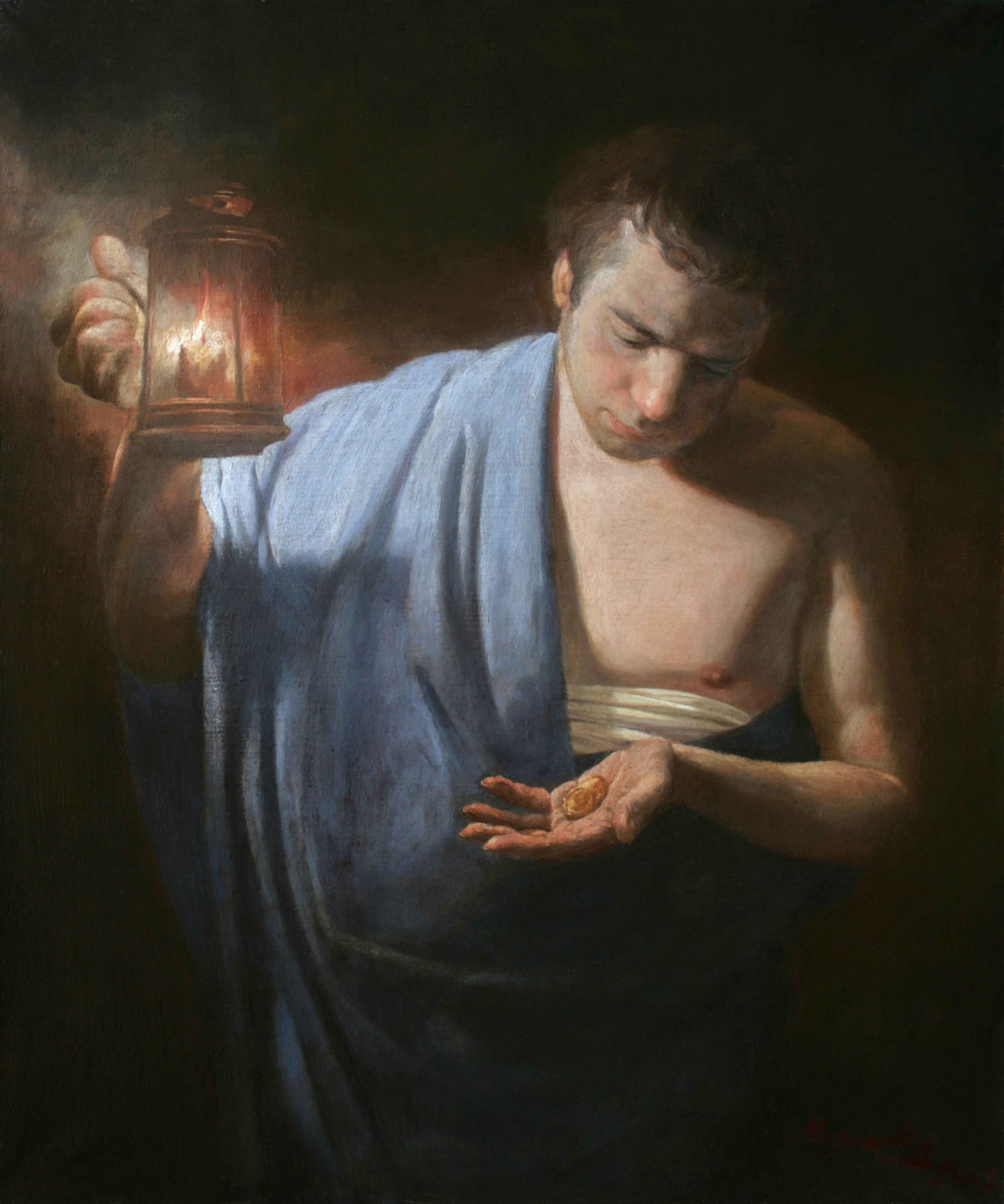 Parable of the talents. 2013. Canvas, oil. 60 x 50. Artist A.N. Mironov